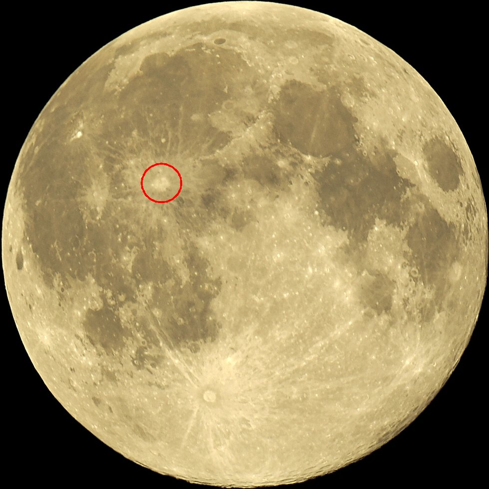 Location of crater Copernicus on the Moon